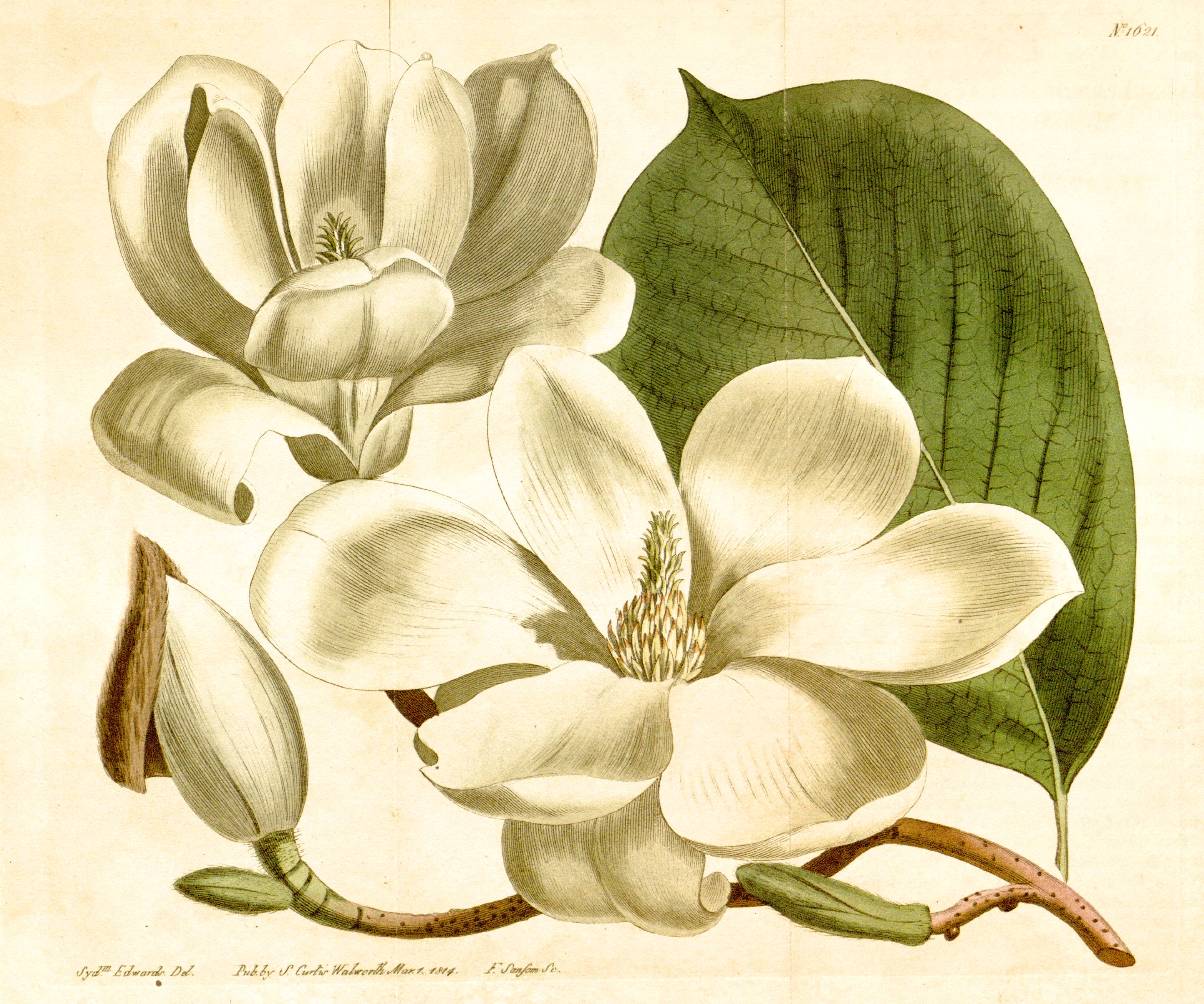 Sims. J. (1814), Curtis's Botanical Magazine vol. 39: Plate 1621, Magnolia conspicua Salisb. (=Magnolia denudata Desr.), hand-coloured copper engraving.